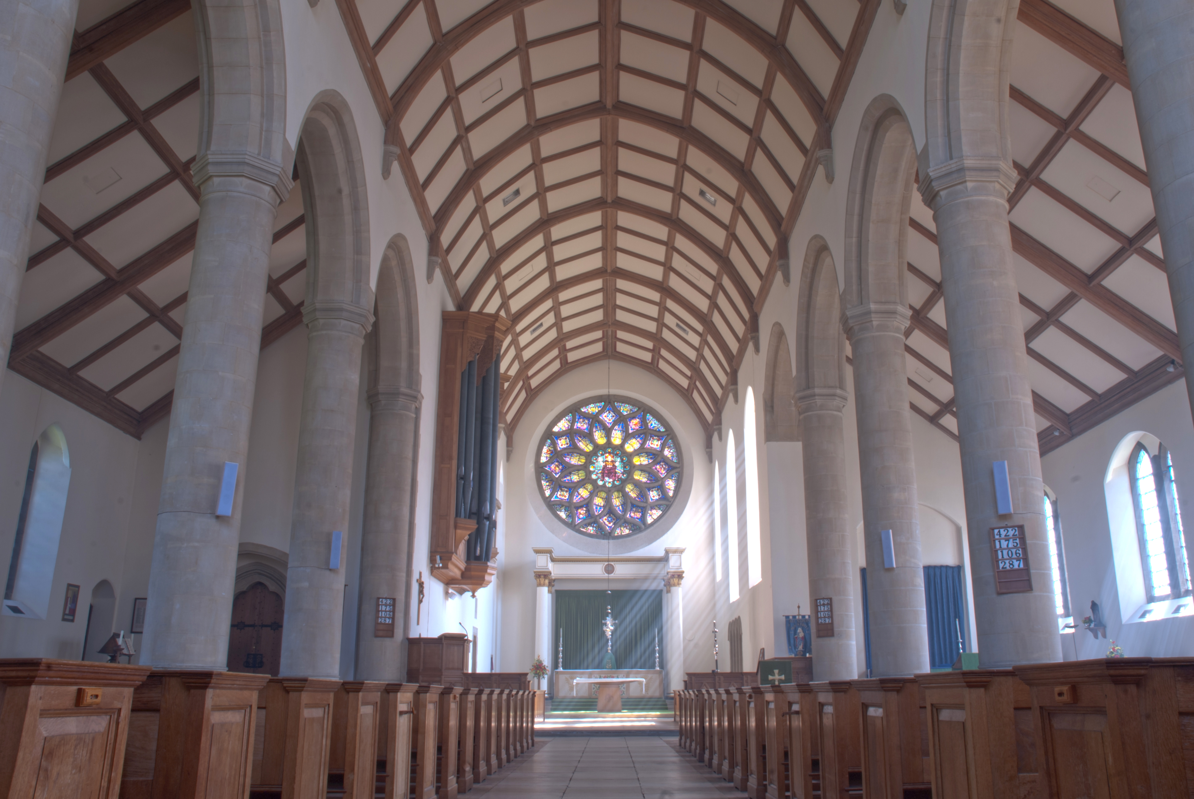 All Saints' Hockerill Church, Bishop's Stortford. Architecture by Stephen Dykes Bower. Chancel including rose window and organ, part of nave with pews, and side aisles.